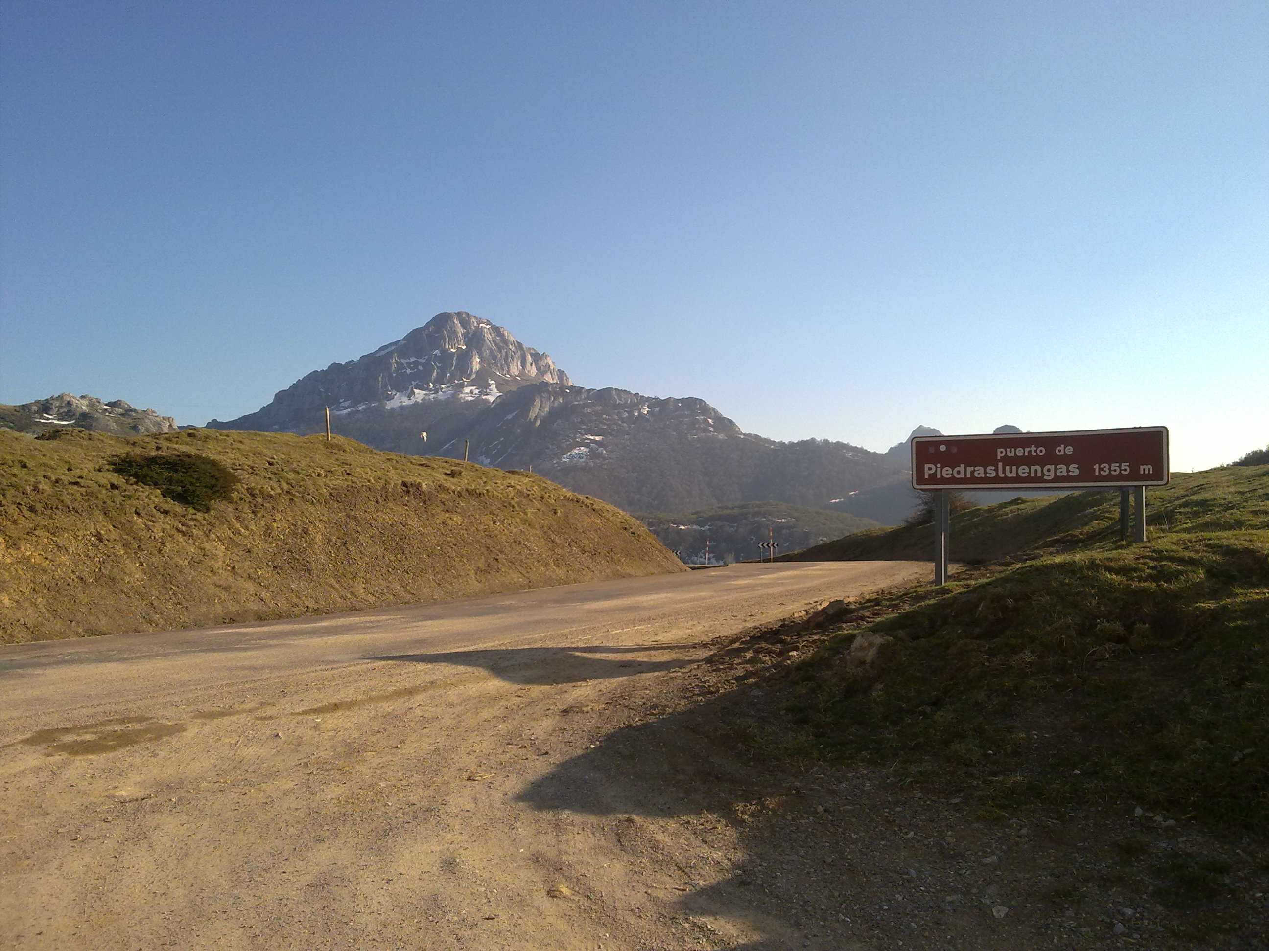 View of Piedrasluengas mountain pass, on the Palencia-Cantabria border; Cantabrian Mountains, Spain.